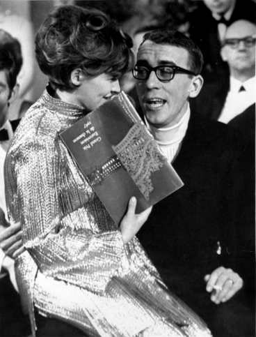 Eurovision Song Contest 1967. Warnerbring represented Sweden in Vinena with the song "Som en dröm" (Like A Dream).